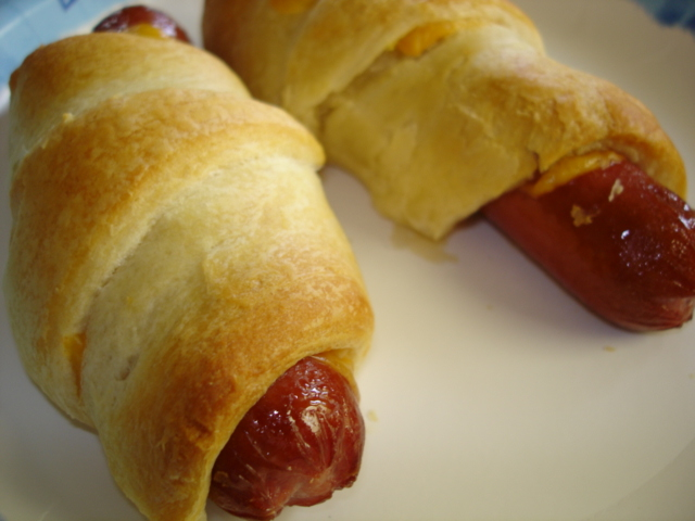 American-style pigs in blankets.